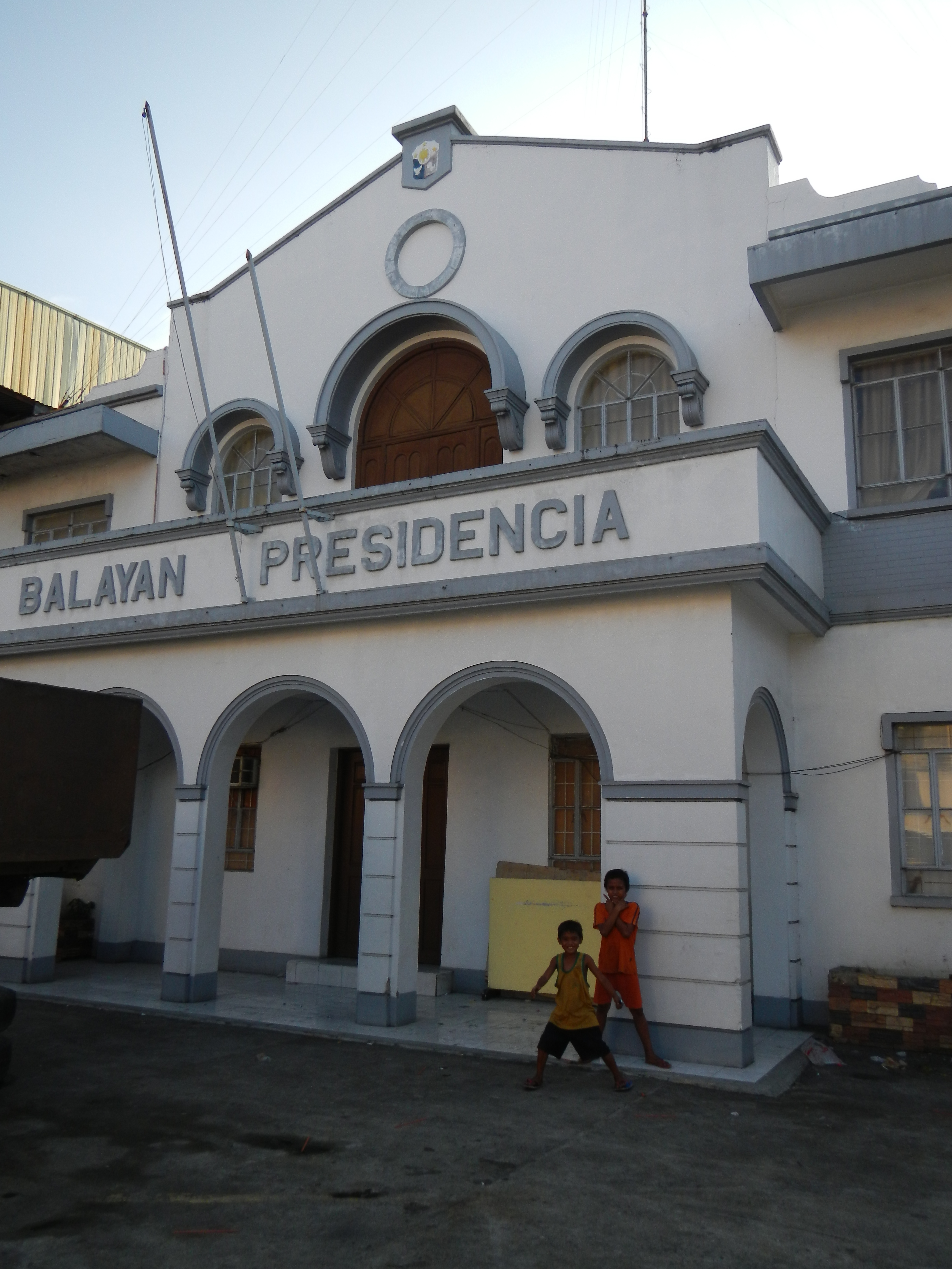 Upload Wizard photos - of the - Barangay 5, Centro, Town Proper, Jollibee, Rizal Monument, Dr. Galicano Apacible (June 25, 1864 – March 2, 1949) [1] at the Plaza, Park, beside McDonald's Heritage house, beside the Balayan Presidencia or Balayan Town Hall, Historic landmark, the Welcome Poblacion Balayan Arch, Balayan Multi-Purpose Covered Basketball Court, DILG office, Traffic management office, BSPCMA, Landbank, Barangay Gumamela, Barangay Gumamela park, along the Provincial, National, Maharlika or Pan-Philippine Highway towards the Town Proper of - Balayan, Batangas[2] (a first class municipality in the Province of Batangas, Philippines; 2010 Philippine Census of Population and Housing, a population of 81,805 people; politically subdivided into 48 barangays; incumbent officials Mayor – Emmanuel Salvador O. Fronda, Vice-Mayor – Joel T. Arada)[3] Coordinates: 13°59'2"N 120°44'45"E [4] geographical location: Batangas, Region 4, Philippines, Asia geographical coordinates: 13° 56' 25" North, 120° 44' 1" East).